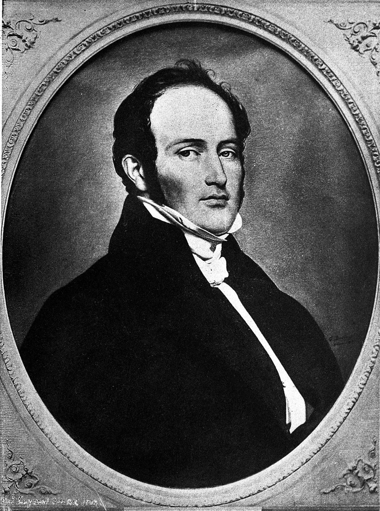 Prosper Meniere, from a portrait painted by G. Bodinier General Collections Keywords: Prosper Meniere; G. Bodinier